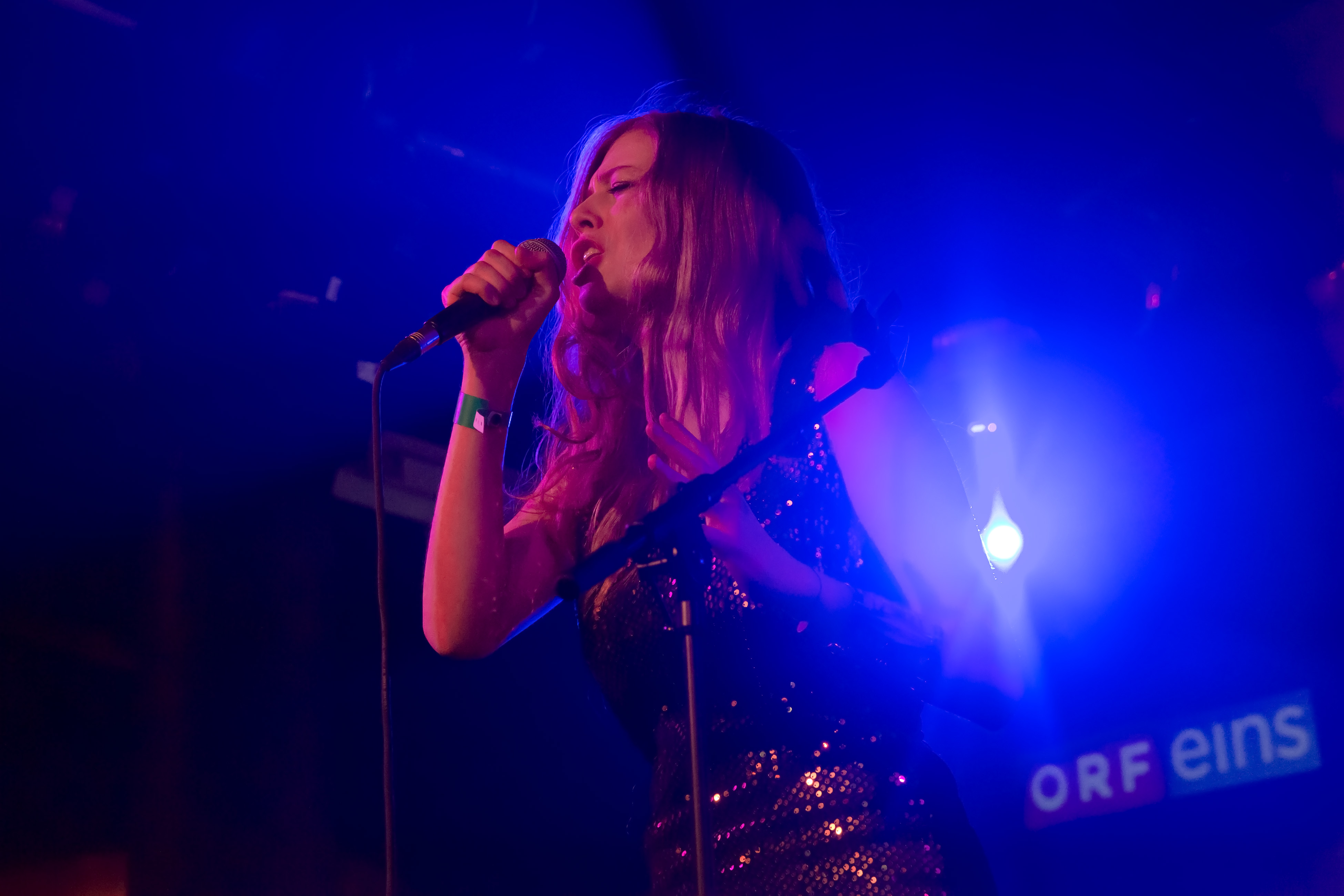 Zoe at the concert of the Austrian candidates for participating at the Eurovision Song Contest 2015; Chaya Fuera, Vienna,Austria.